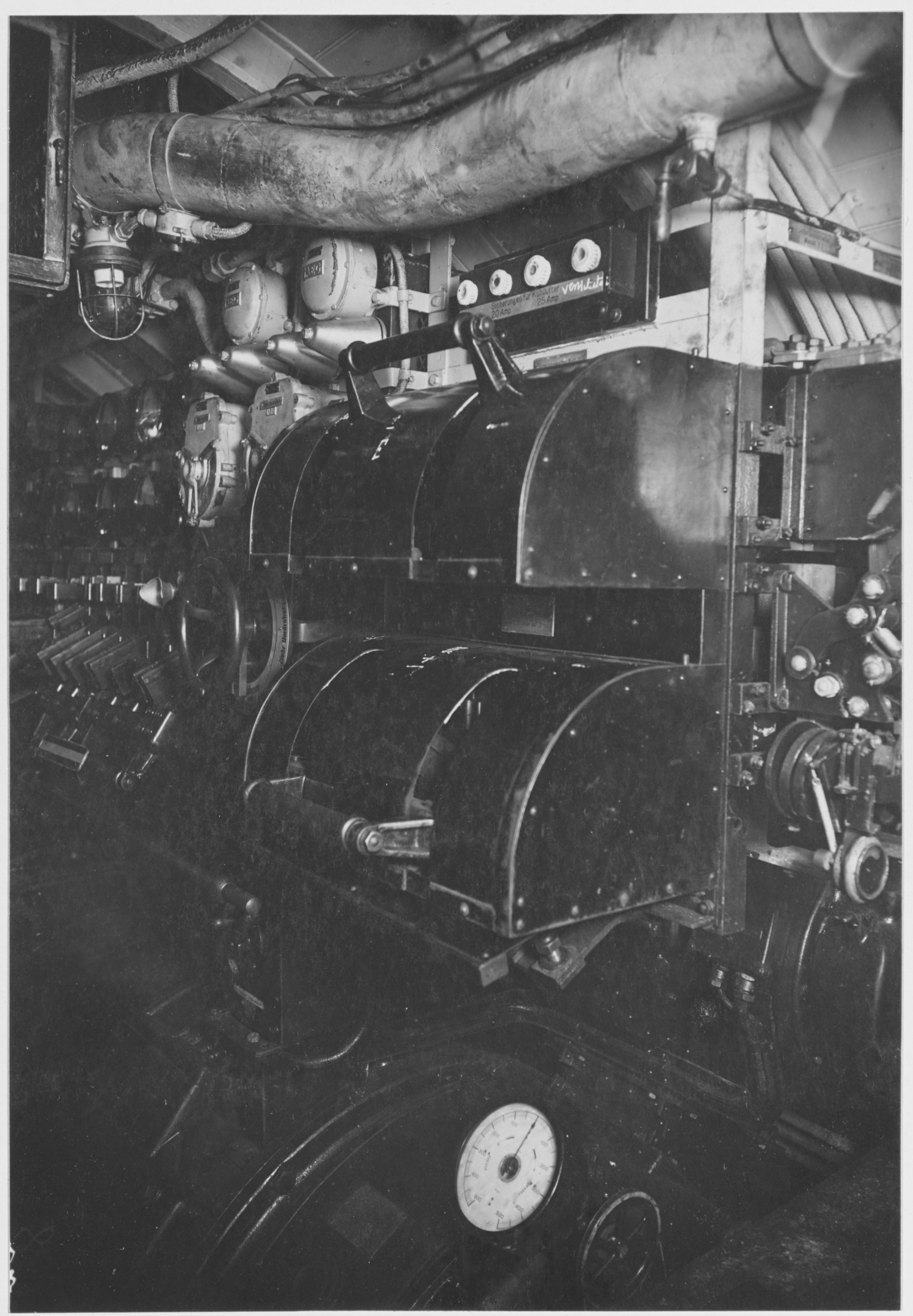 Title: German Submarine UC-58 Caption: Interior of a German submarine.